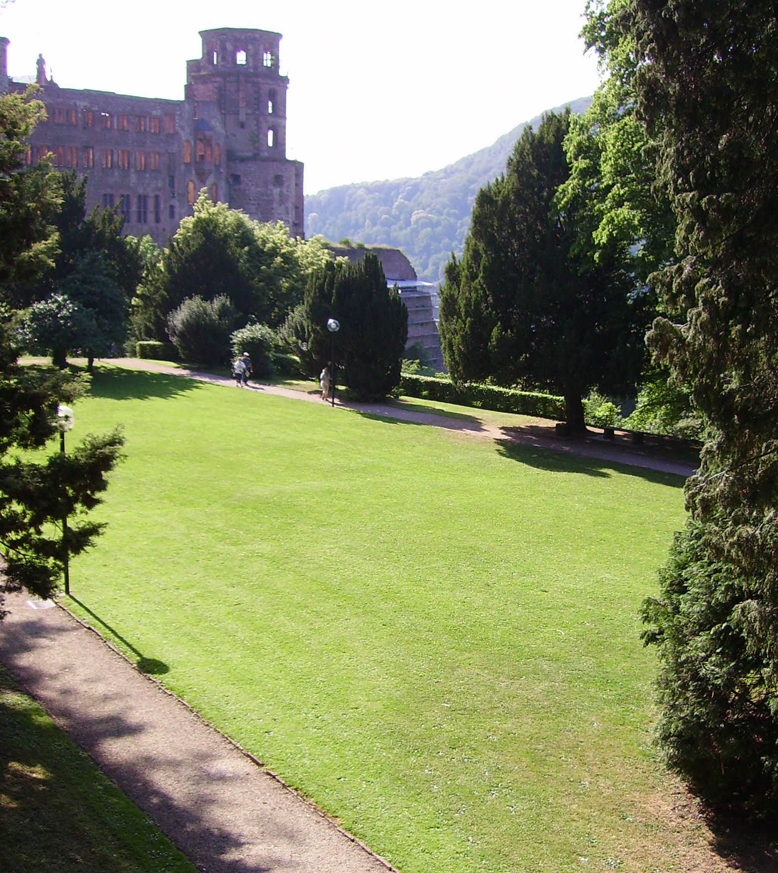 part of Heidelberg castle (Heidelberger Schloss)